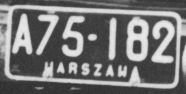 Polish 1946-1956 pattern license plate.